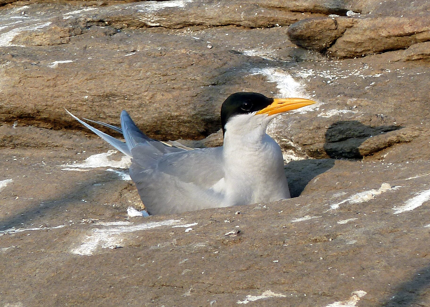 River Tern Sterna aurantia, Ranganathittu Bird Sanctuary, Mysore, India